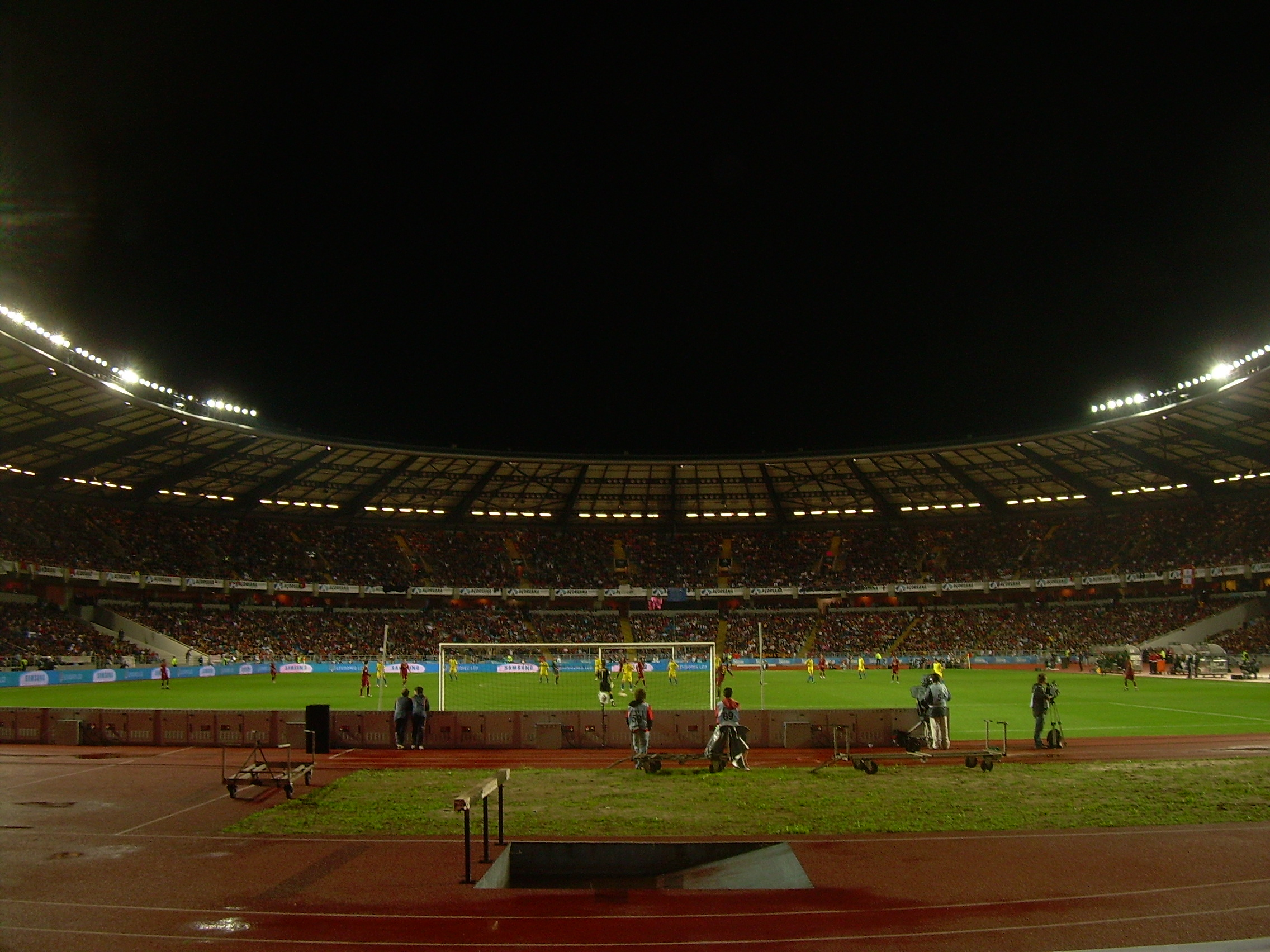 Cidade de Coimbra - Completely full stadium in the match Portugal - Kazakhstan